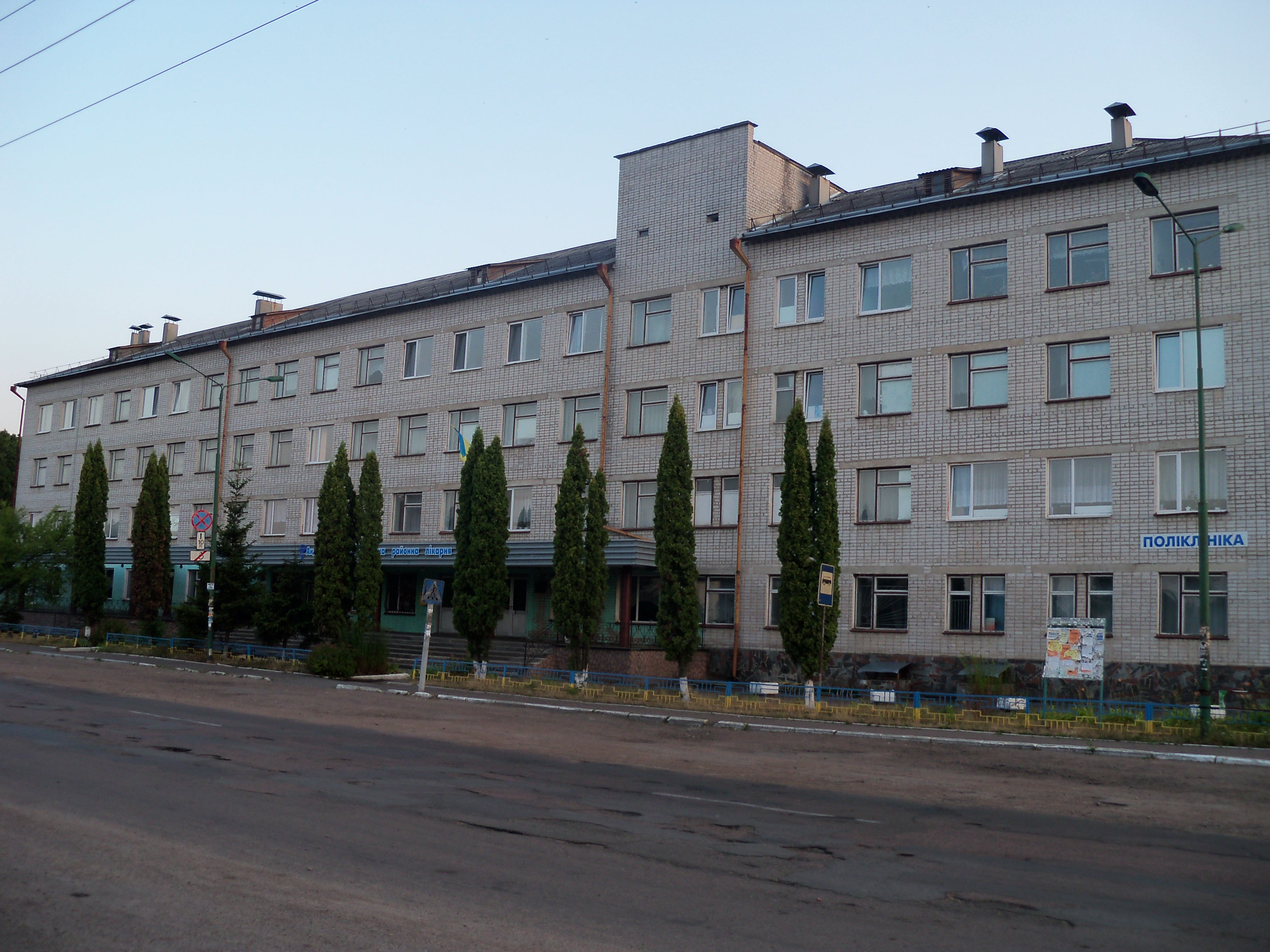 Andrushivka district central hospital